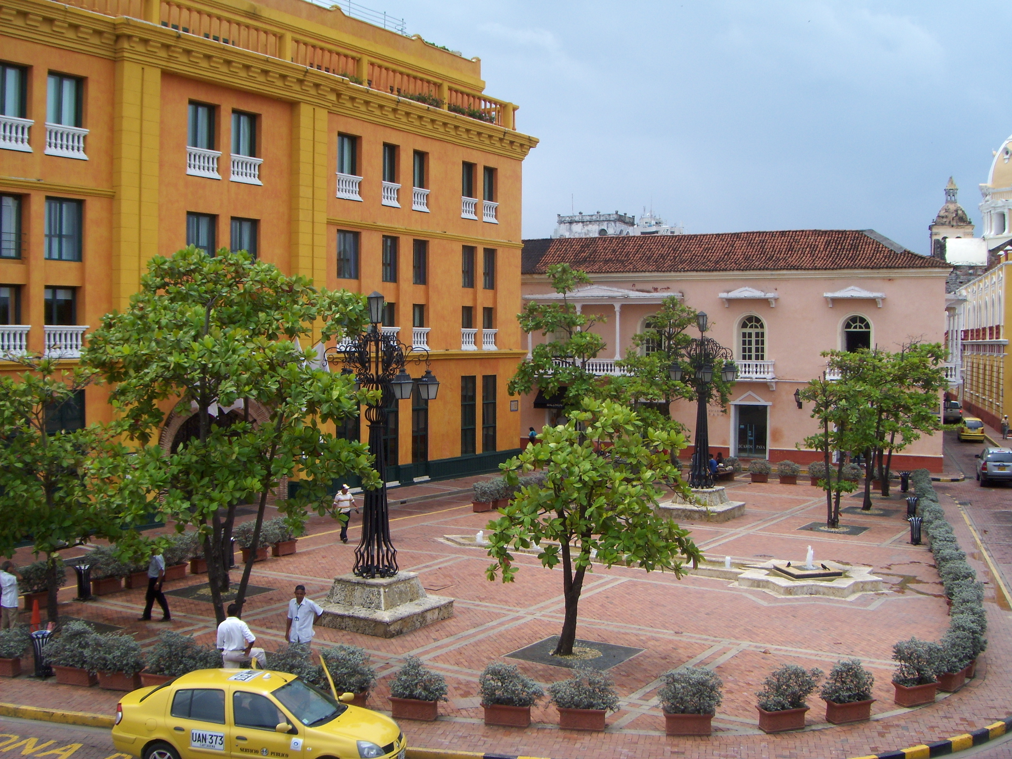 Near the entrance to the historic part of town.